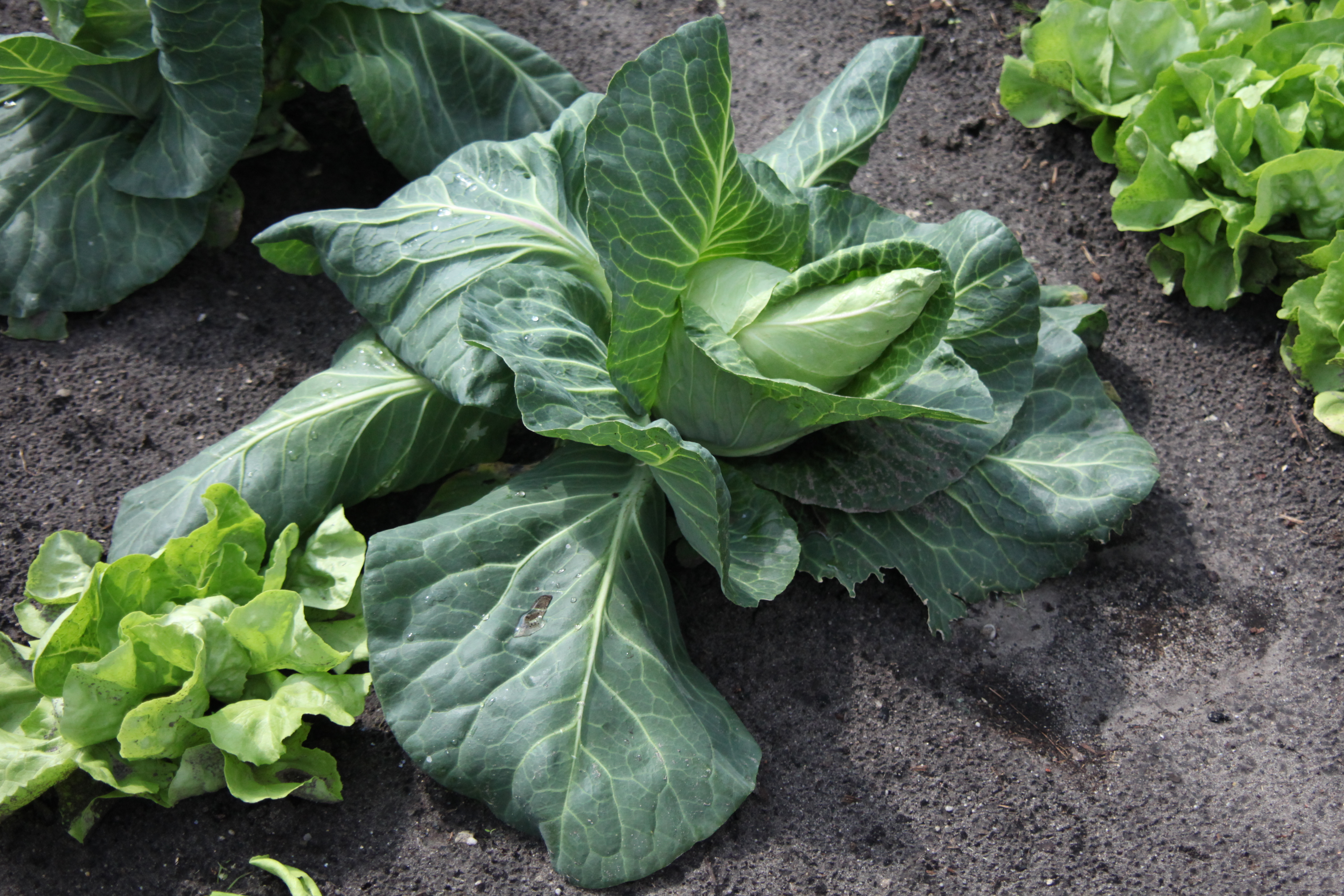 Category:Brassica oleracea var. capitata f. acuta